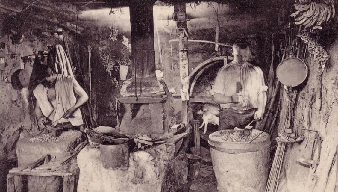 Saint-Cornier-des-Landes, Orne, Cloutiers (carte postale ancienne retouchée)